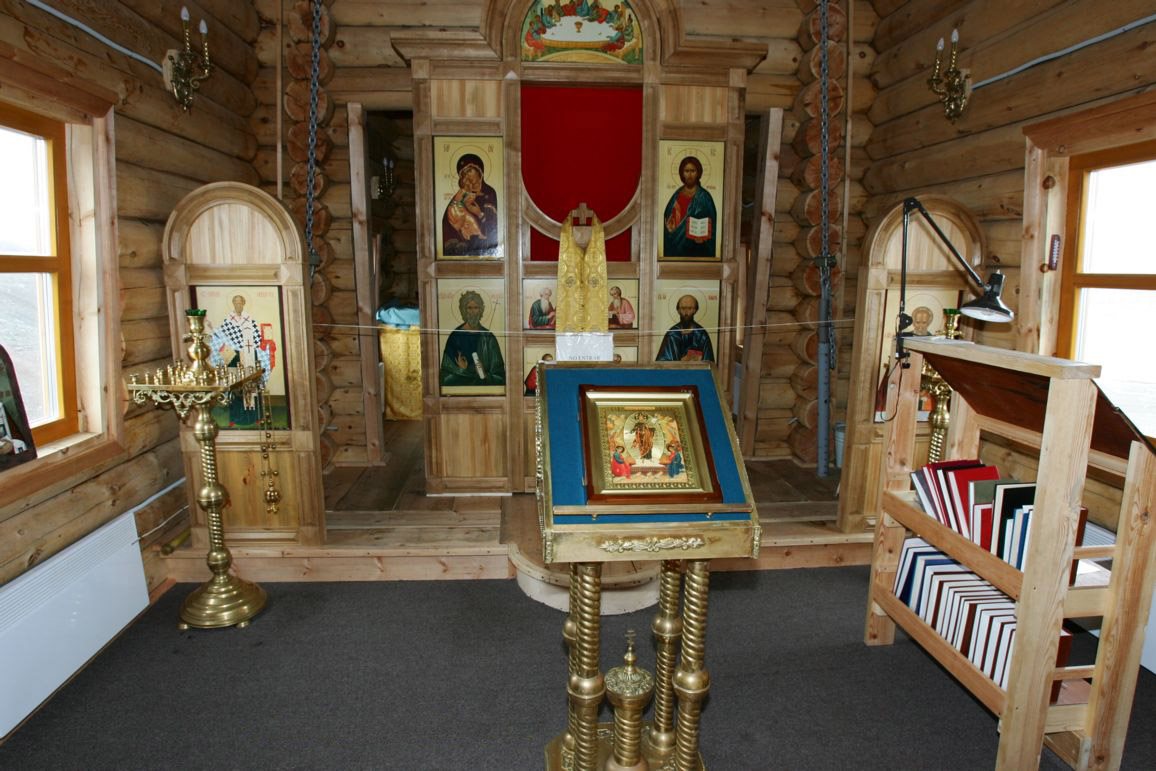 A view inside Trinity Church. Note the Epitrachelion (priests' stole) hung over the Holy Doors.